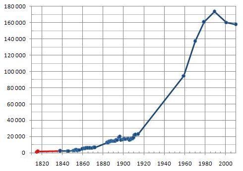 The plot presents population of Melitopol as a function of year